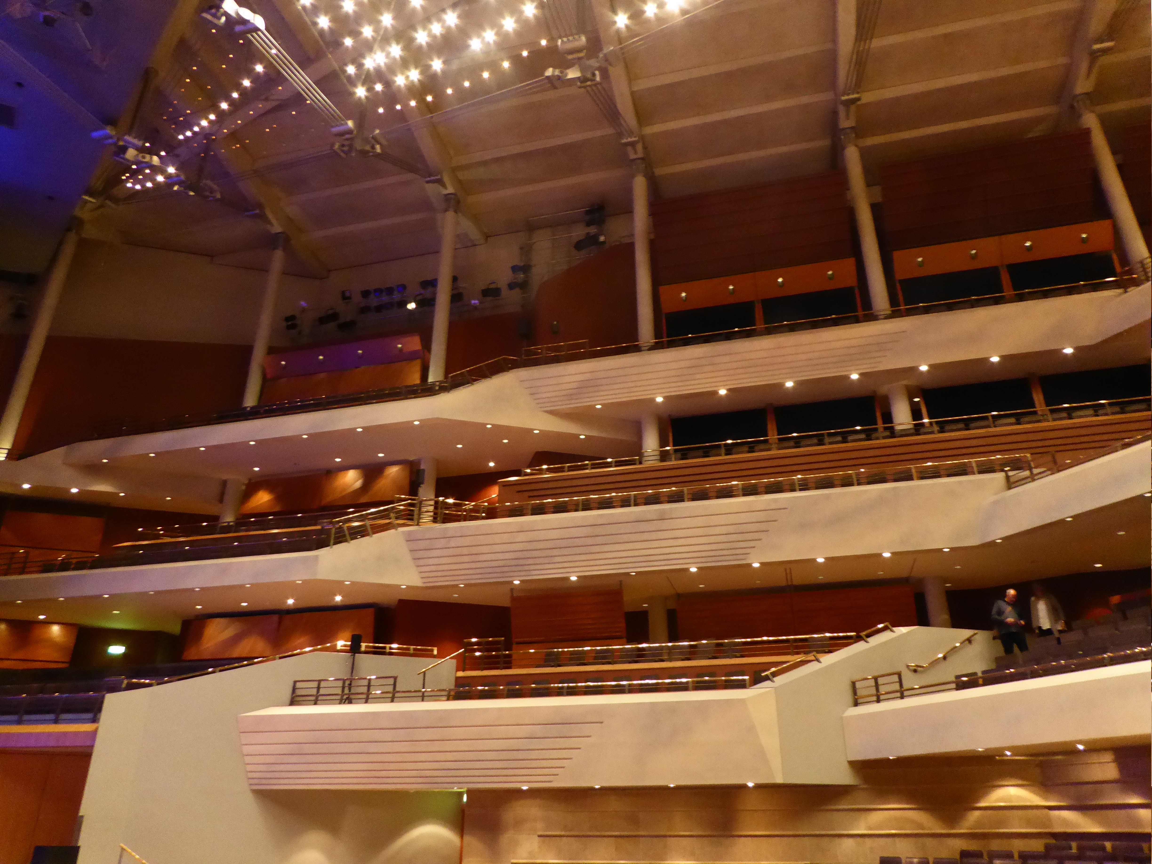 Bridgewater Hall, Lower Mosley Street, Manchester, Greater Manchester, England, September 2016